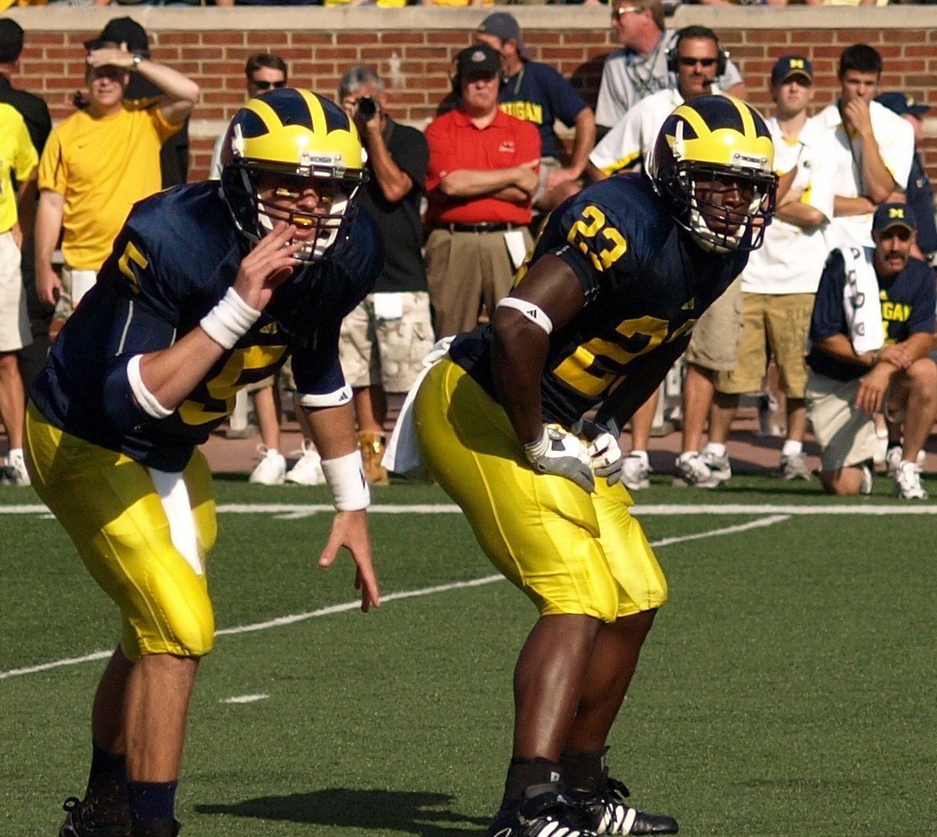 Tate Forcier and Carlos Brown of the w:2009 Michigan Wolverines football team